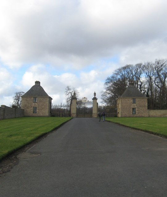 The entrance to Floors Castle This, the main (town) gates, are flanked by two lodges. Floors Castle is home to the Dukes of Roxburghe at Kelso.